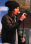 Robin Bengtsson, Swedish Idol tour, 2008